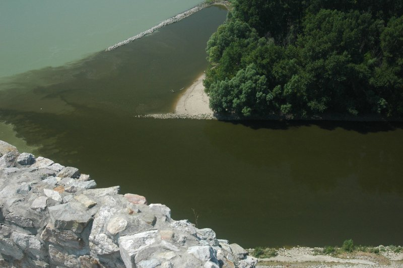 Danube and Morava confluence. The Morava river flows through Haná and South Moravia regions. Sediments collected from these areas with rich black soil give it dark colour.